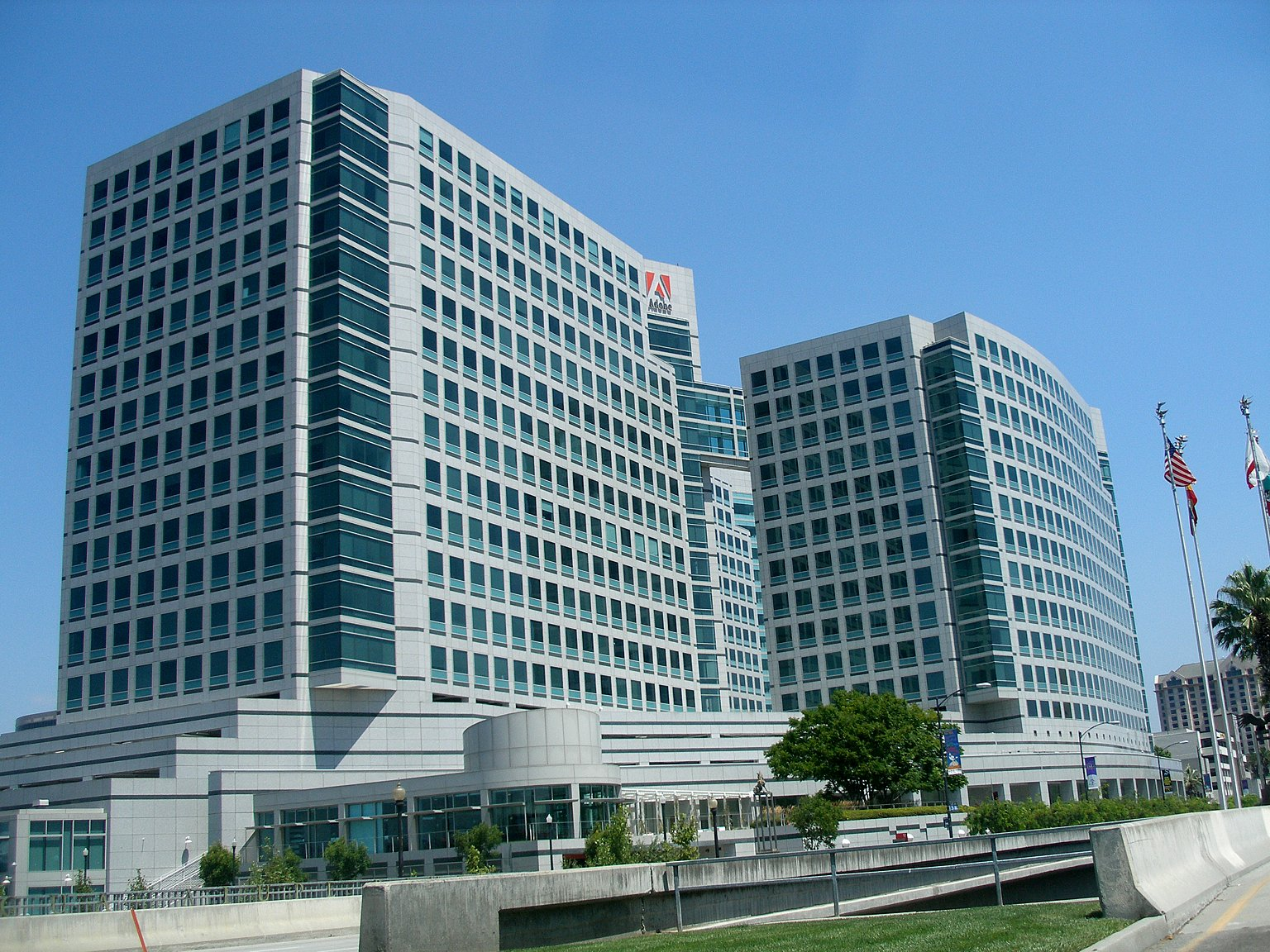 The headquarters of Adobe Systems in downtown San Jose, California.